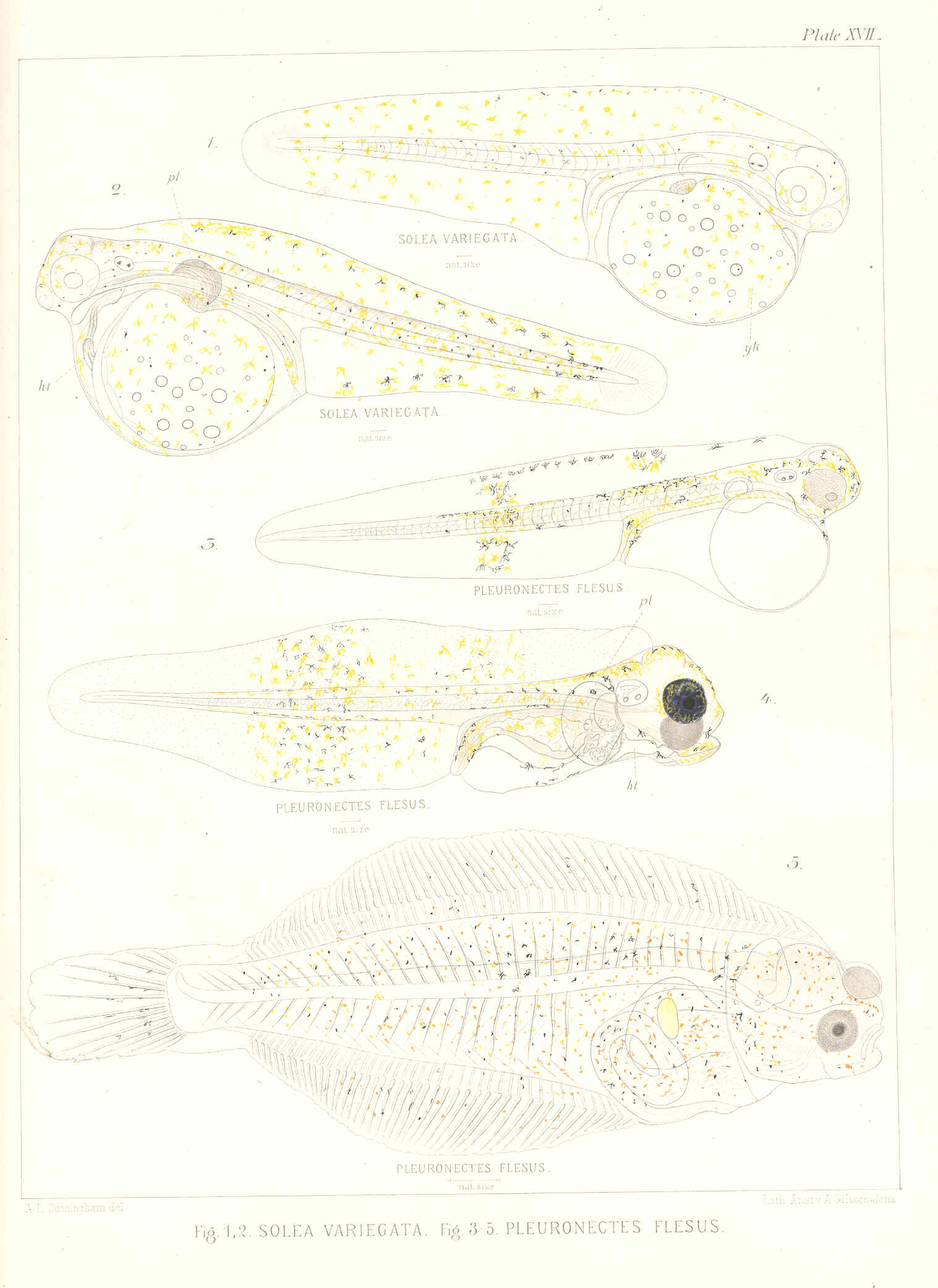 Microchirus variegatus syn. Solea variegata: Larva of Thickback Newly hatched, April 24, 1889... Pigment as seen by reflected light. yk: yolk (1); Microchirus variegatus syn. : Larva...two days after hatching, April 23, 1889... Pt, pectoral fin; ht, heart (2);Platichthys flesus syn. Pleuronectes flesus : Larva of flounder two days after hatching, February 20, 1889, from egg artificially fertilised (3); P. flesus : Larva...six days after hatching, February 24, 1889...; same magnification (4); P. flesus : Young flounder taken in Mevagissey Harbour, April 2, 1889; drawn April 5.... (5) Subject: Flatfishes, Solea, Pleuronectidae Tag: Fish